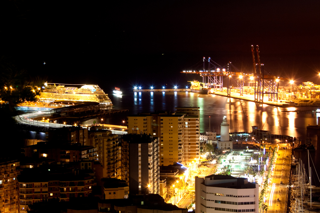 Málaga harbour, Spain.